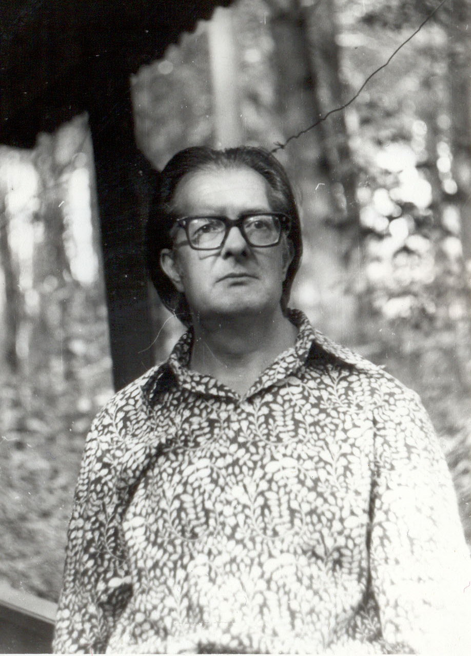 Valery Polevoy, composer (1927-1986)